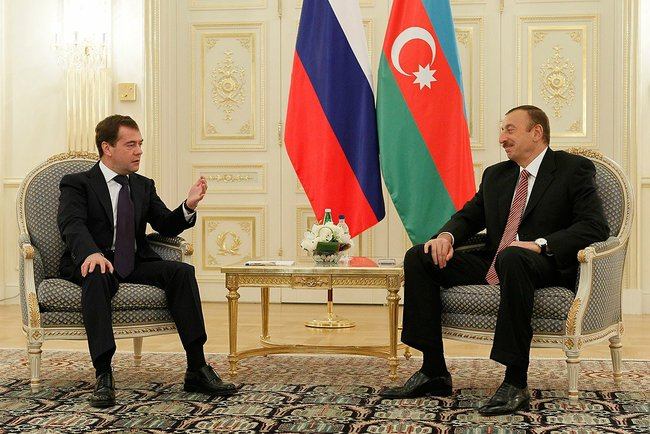 With President of Azerbaijan Ilham Aliyev.